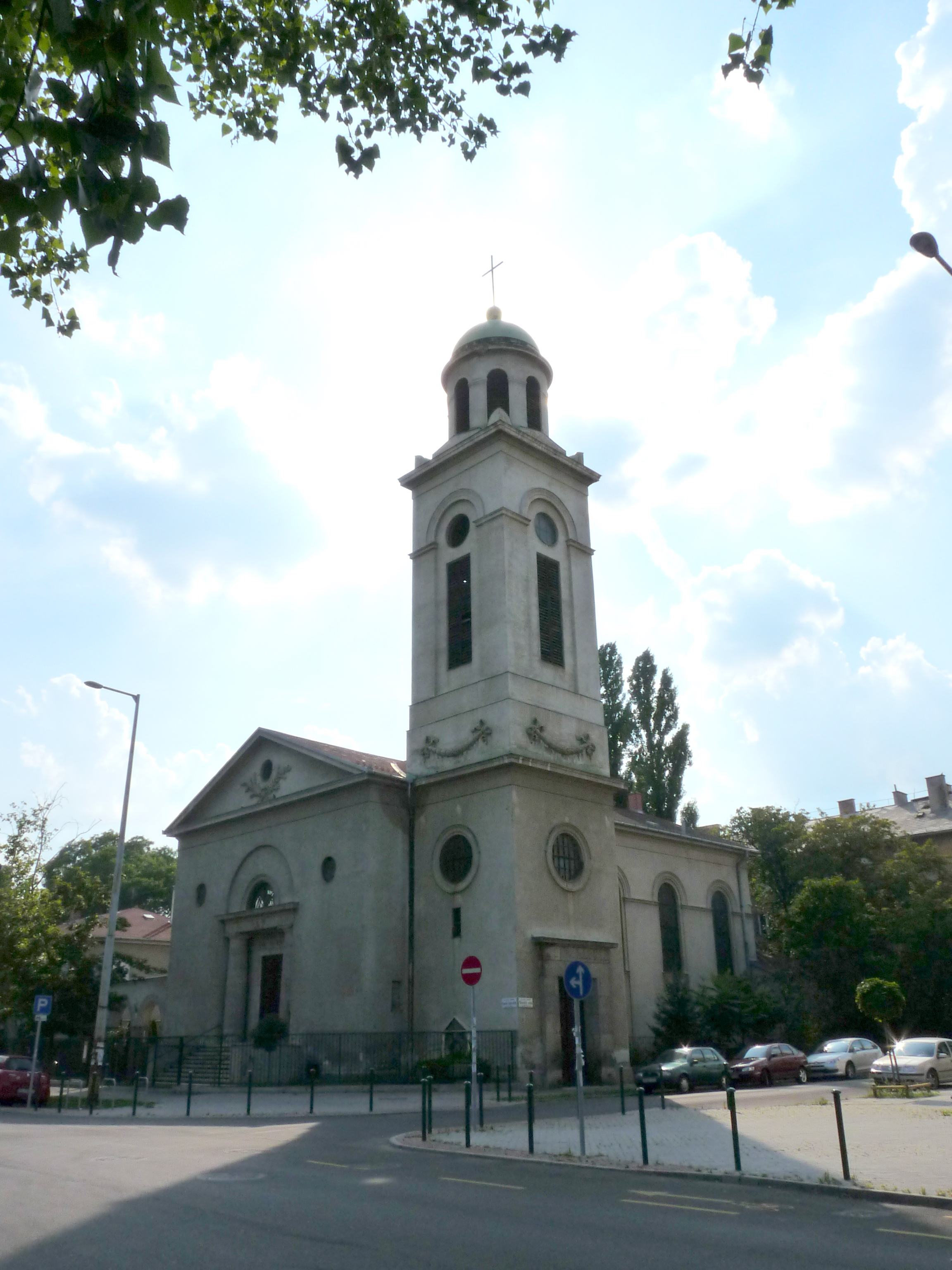 Lutheran church of Angyalföld - photo taken against the sunlight, from across the Kassák street